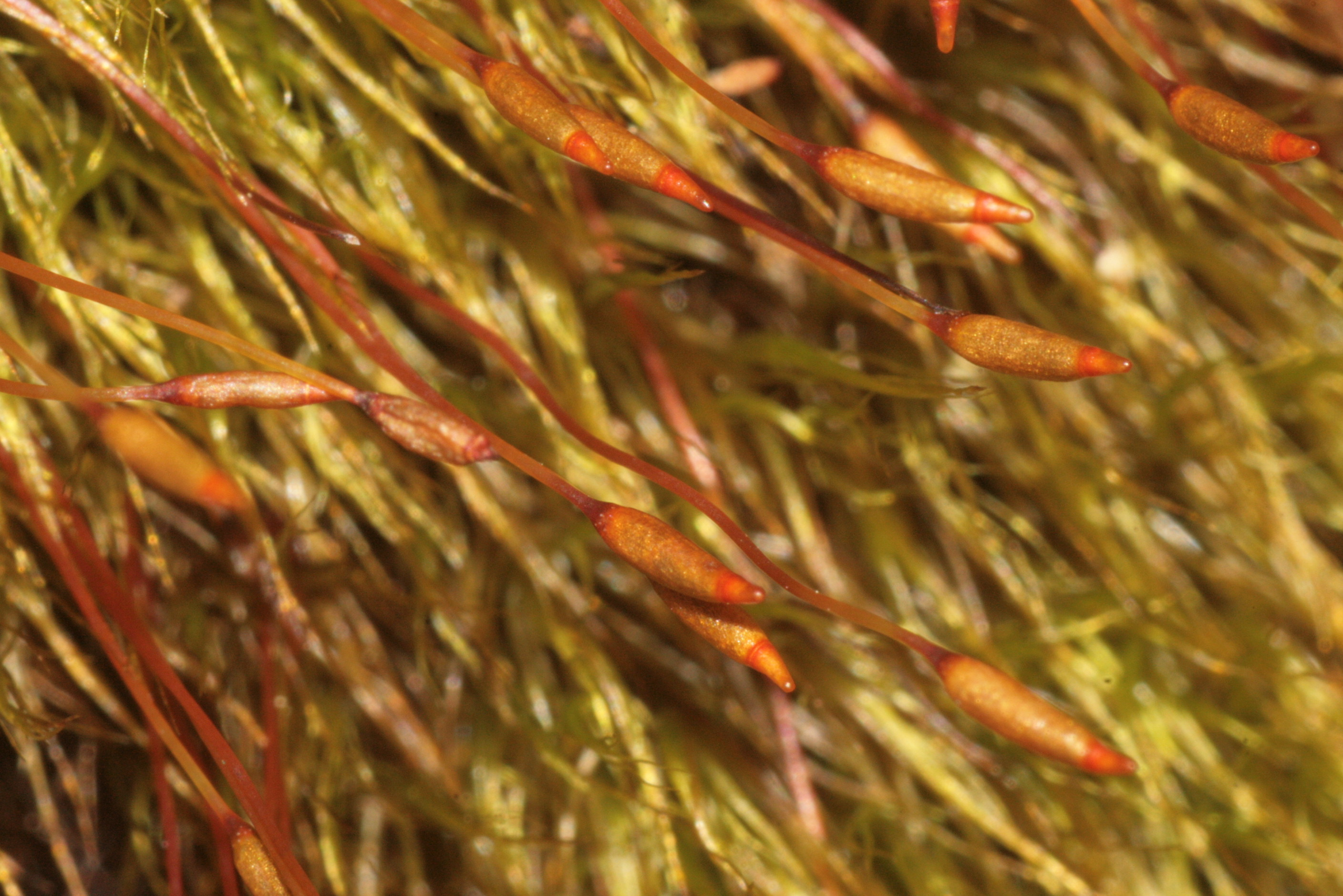 Ditrichum gracile